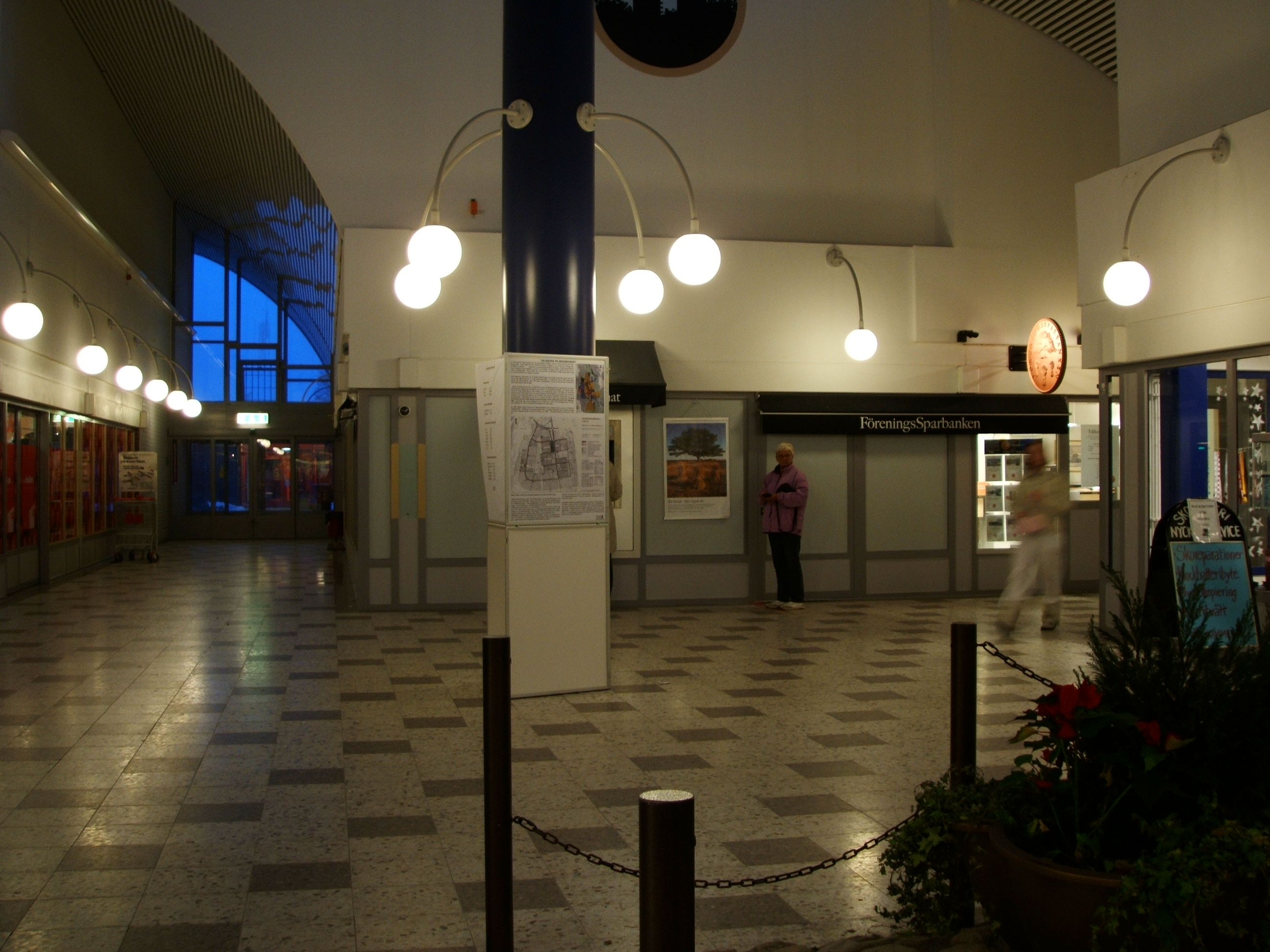 not the most exciting place on Earth